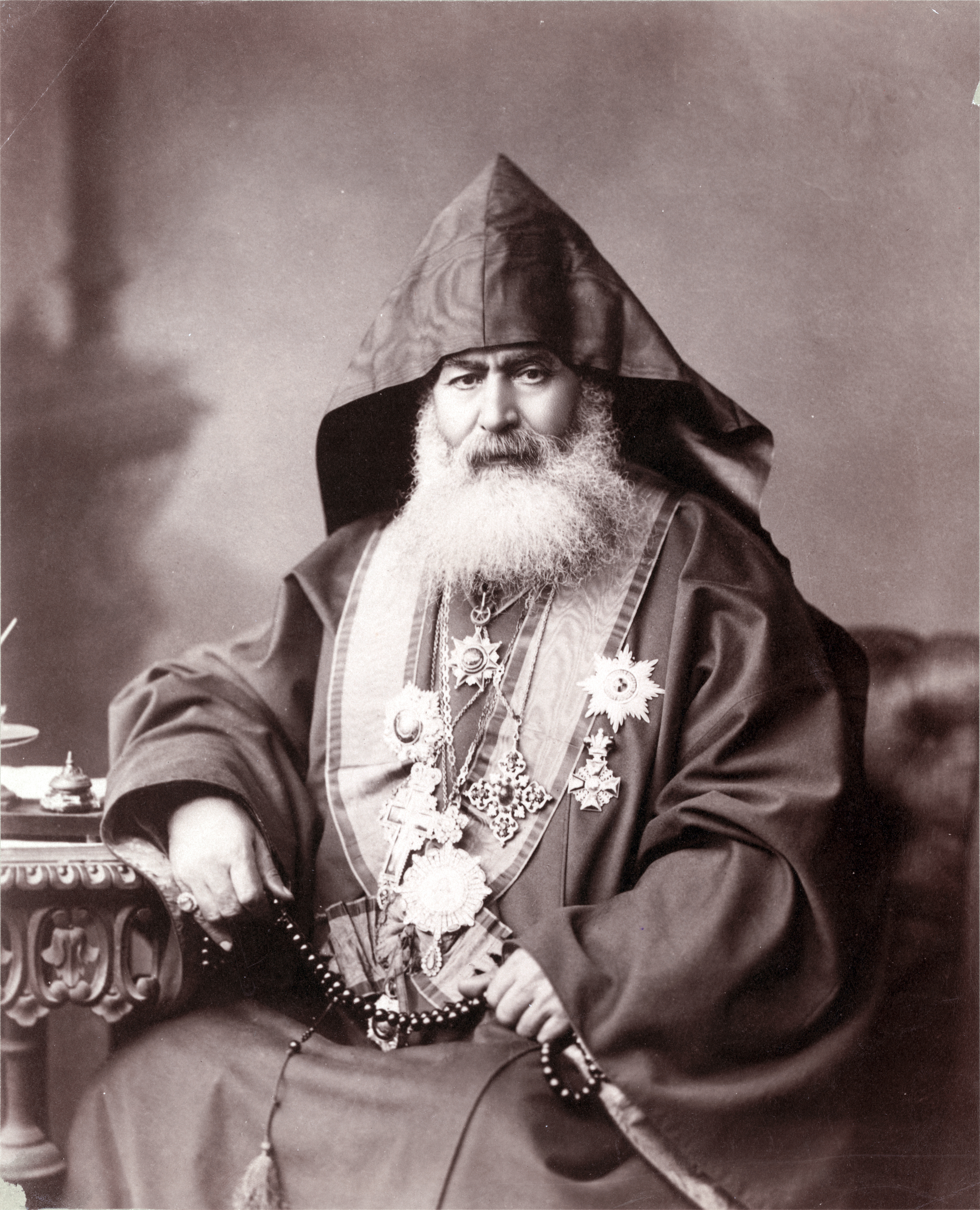 Armenian Patriarch of Jerusalem Harootiun Vehabedian, seated, facing front, wearing hooded vestment, adorned with crosses and other medals on his chest, holding a strand of beads.